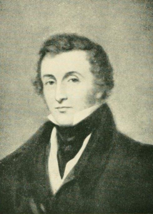 Portrait of the naturalist Sir William Jardine (1800-1874). Published in Transactions of the Dumfriesshire and Galloway Natural History and Antiquarian Society, 21st February, 1919